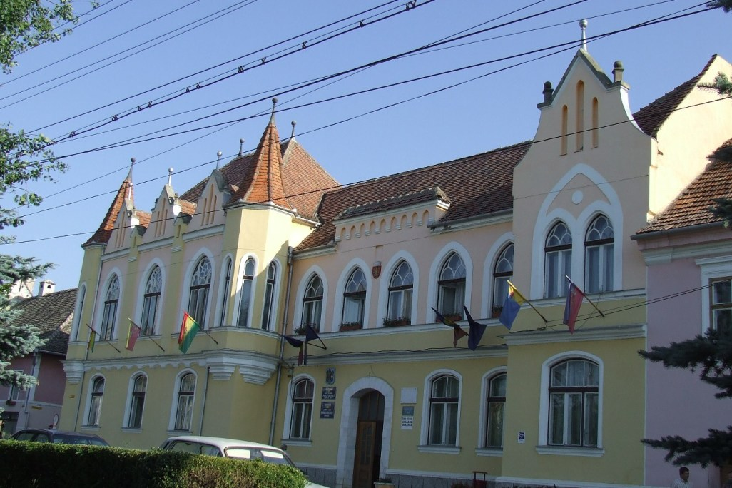 View from Sebeş, Alba County Romania